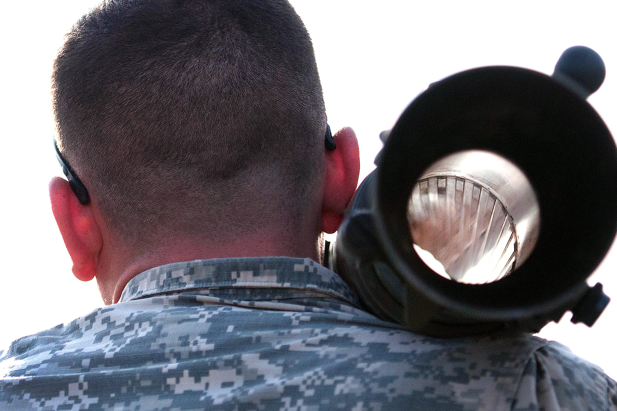 A paratrooper shoulders a Carl Gustav M3 84mm recoilless rifle during a certification course on Fort Bragg, N.C., Dec. 6, 2011. U.S. Army photo by Sgt. Michael J. MacLeod